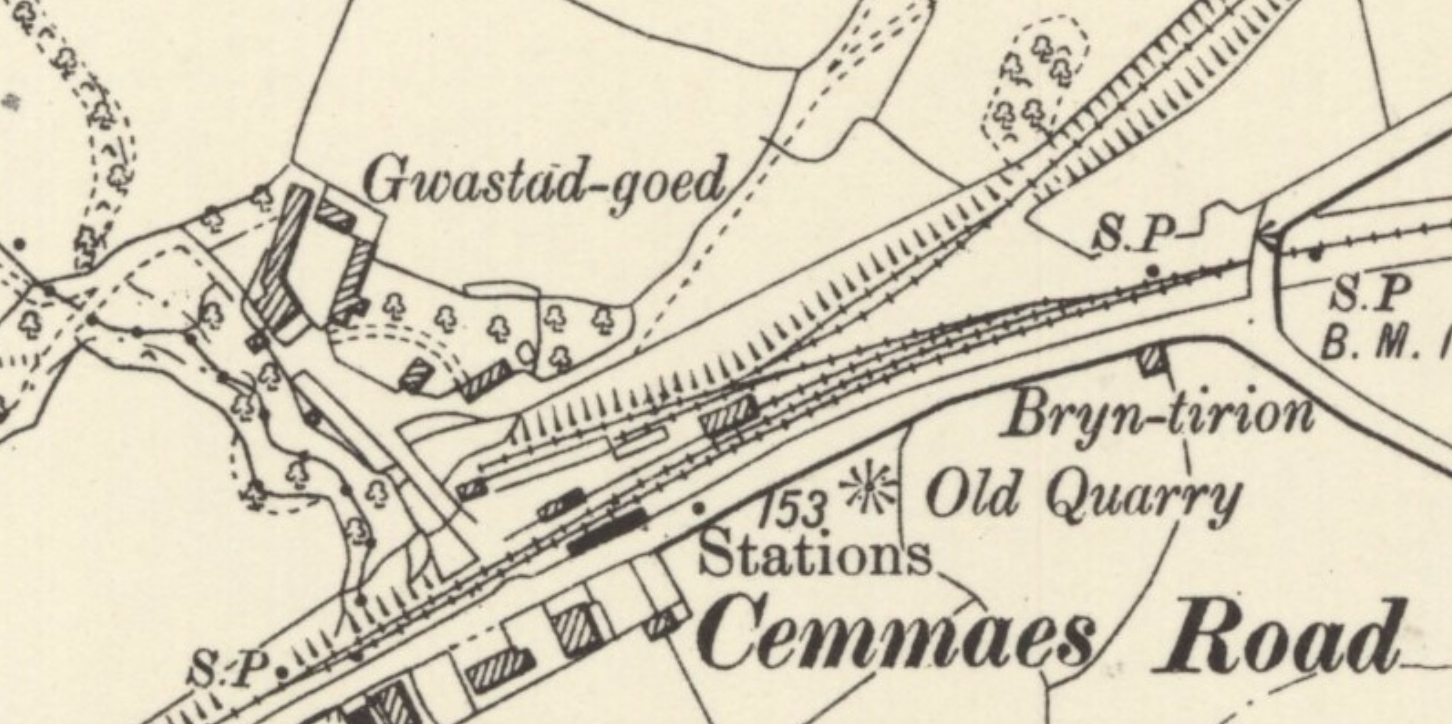 A section of the 1900 Ordnance Survey map Montgomeryshire XXVI.NE, showing Cemmaes Road railway station